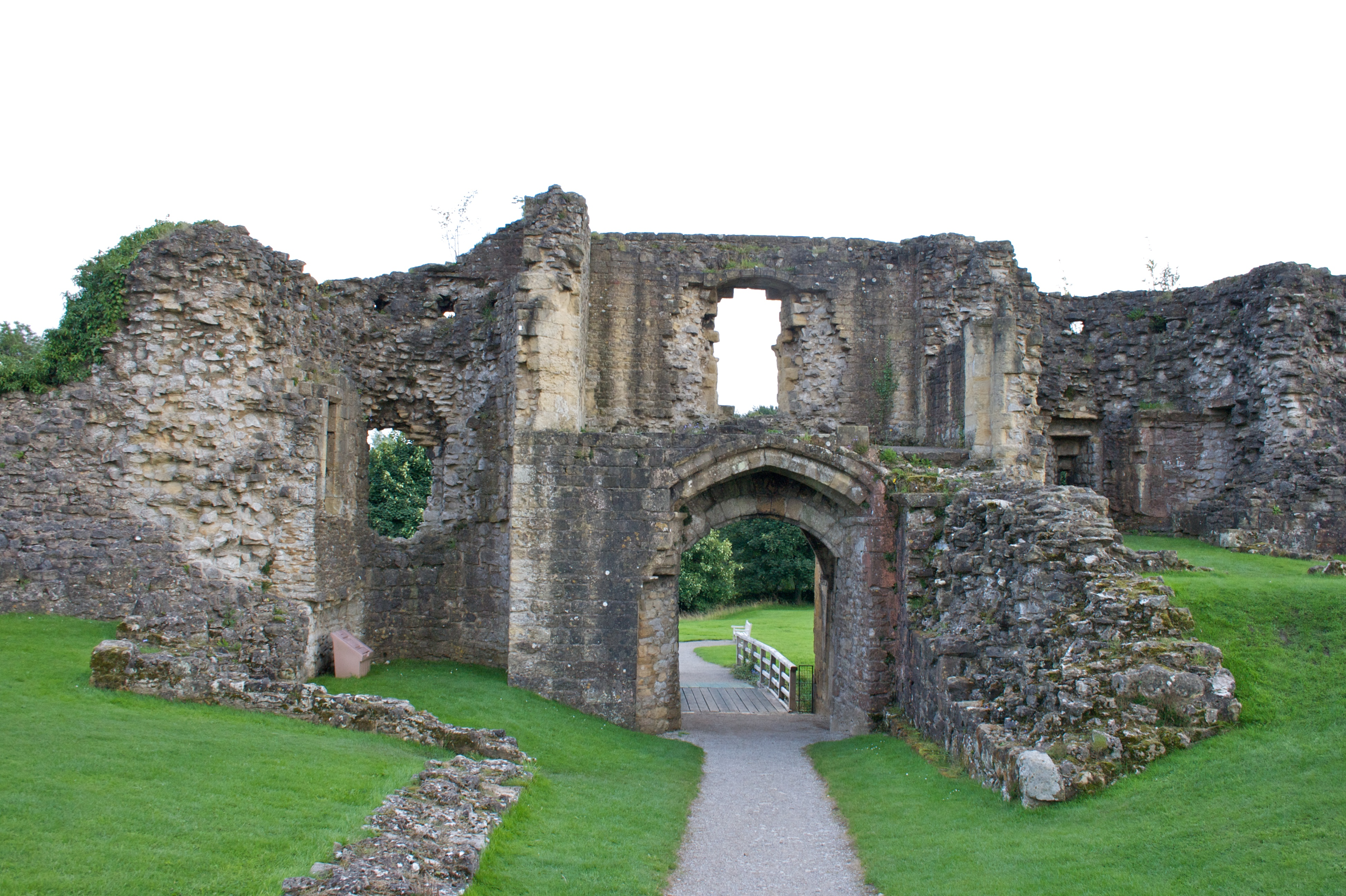 Helmsley Castle.